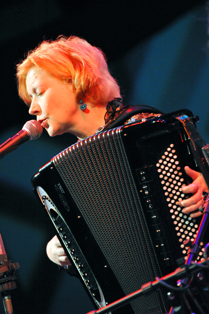 Maria Kalaniemi - accordion player from Finland, performing at Warszawa Cross Culture Festival in 2011.